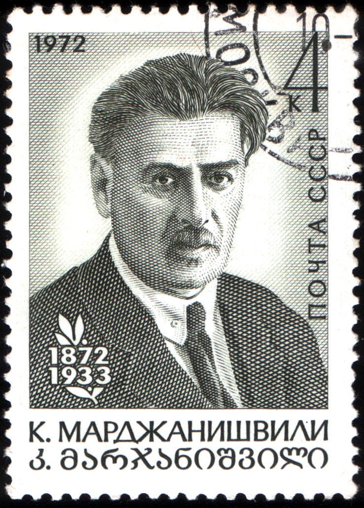 USSR stamp, K. Marjanishvili, 1972, 4 k.